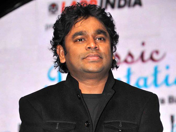 A.R.Rahman at 57th FF Awards